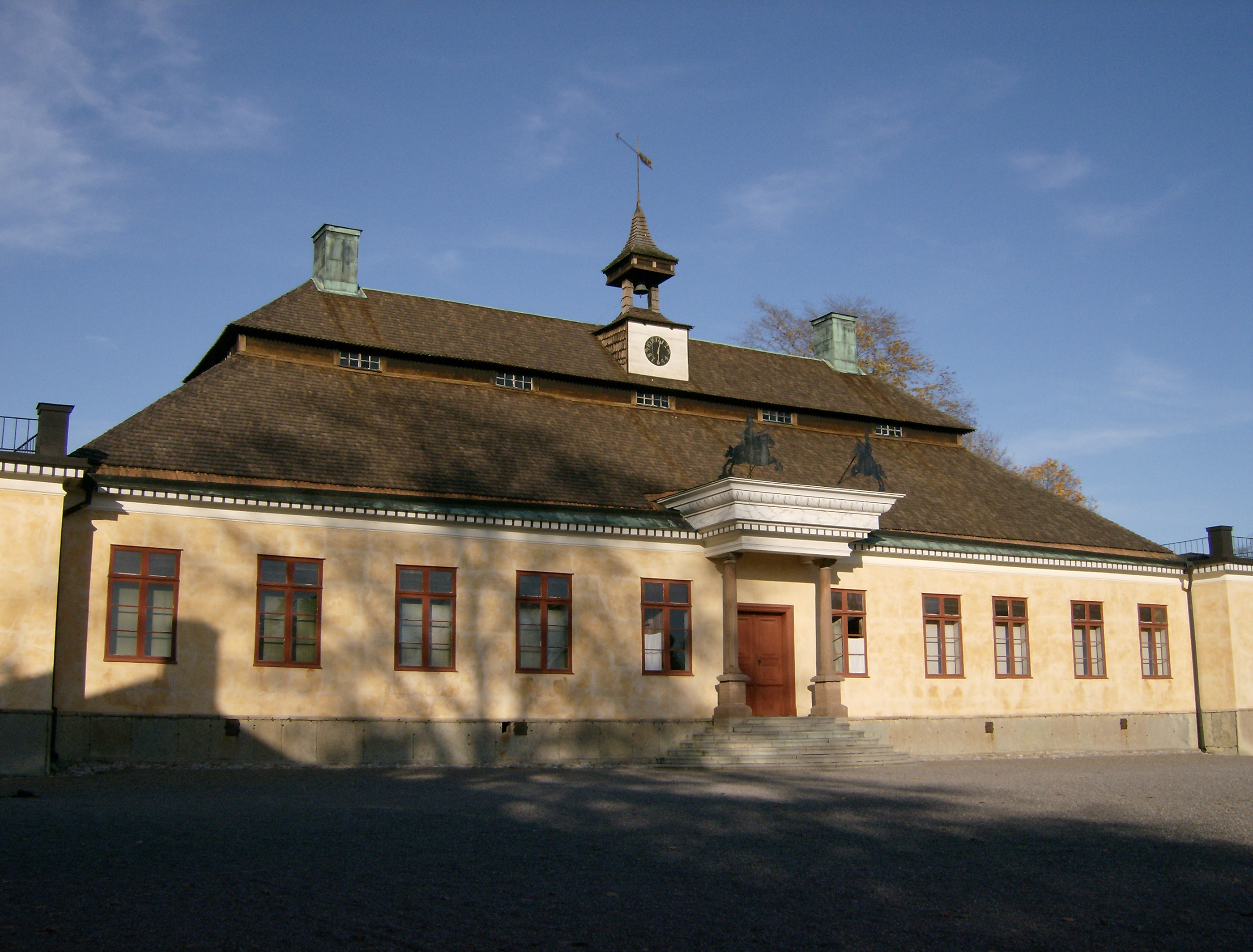 Skogaholm Manor, Skansen in Stockholm, Sweden.